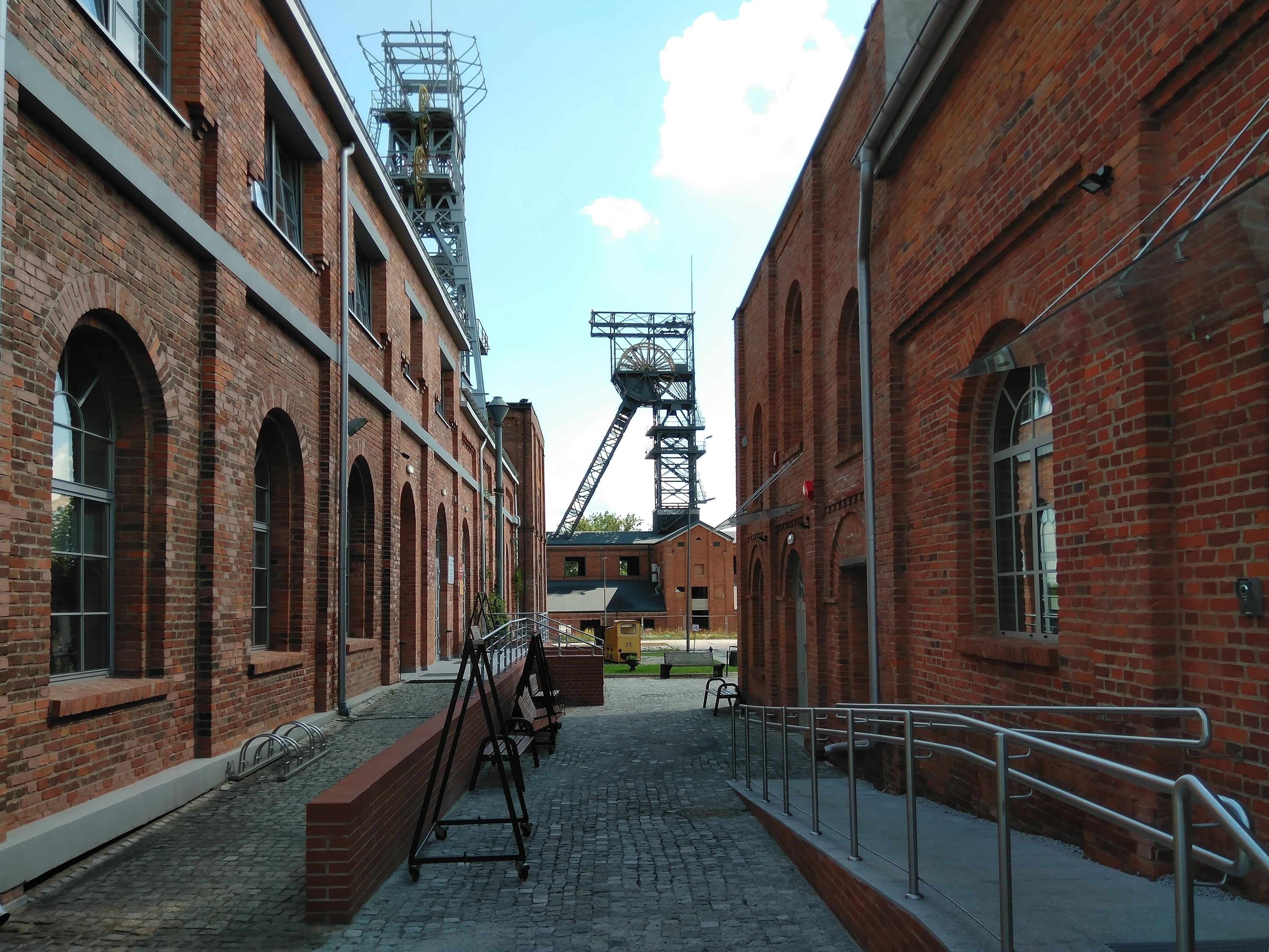 Former coal mine in Rybnik-Niewiadom, Upper Silesia, Poland, nowadays a mining museum.